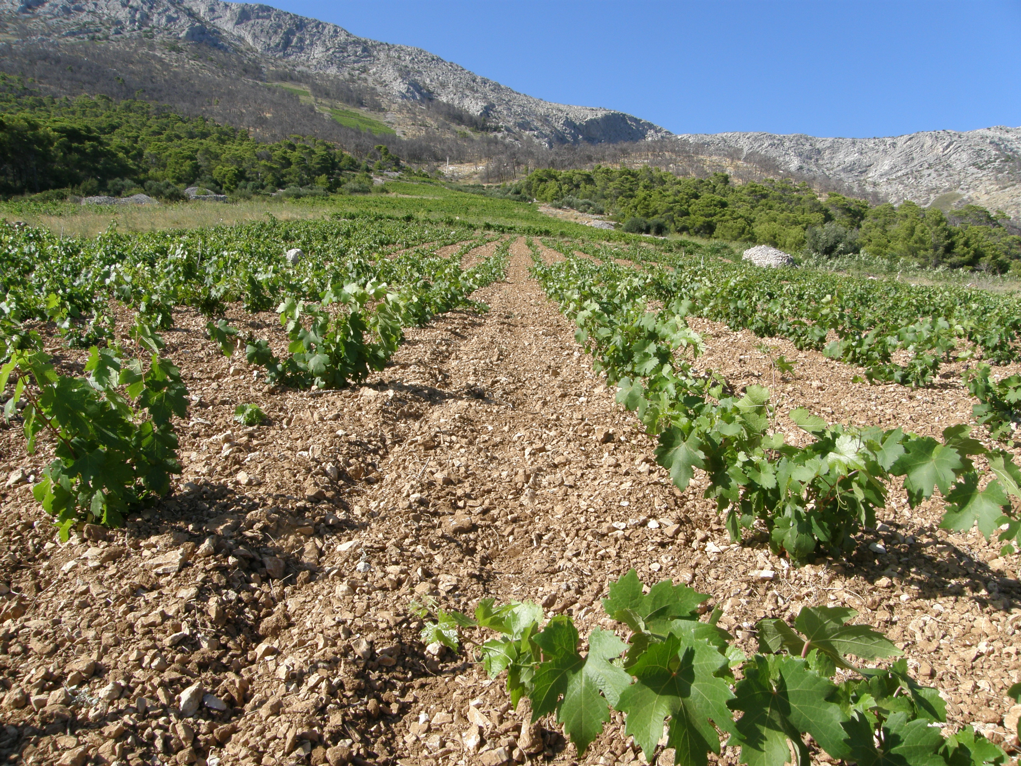 Vineyards on the island Hvar.